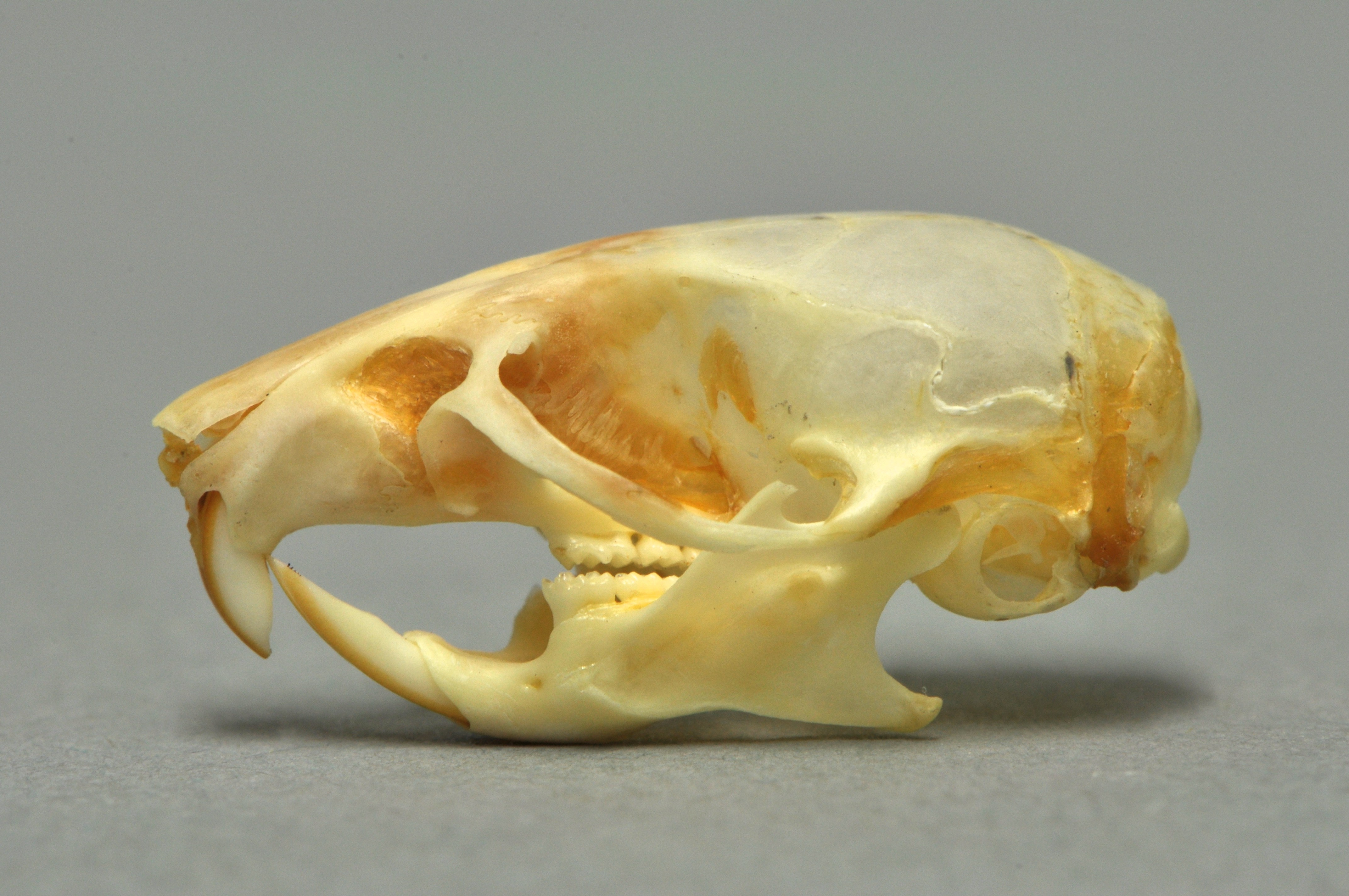 House mouse Mus musculus , skull, Coll. Museum Wiesbaden